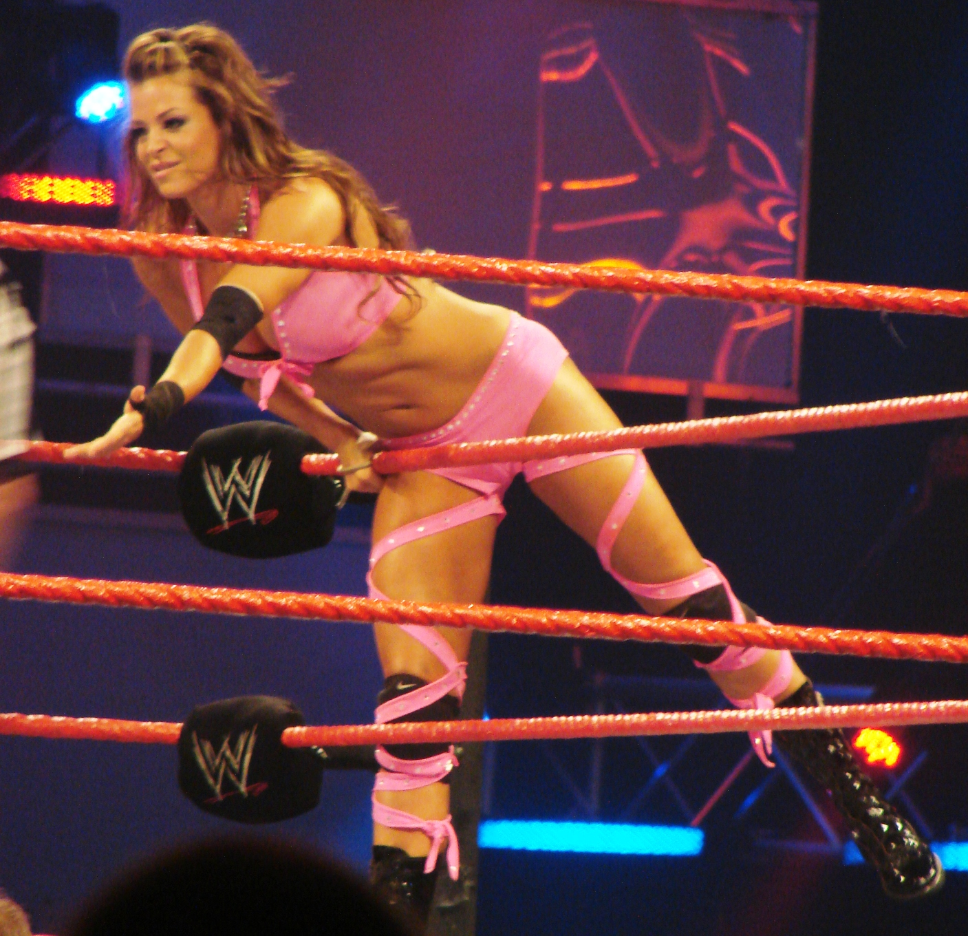 Candice Michelle. Bradley Center, Milwaukee